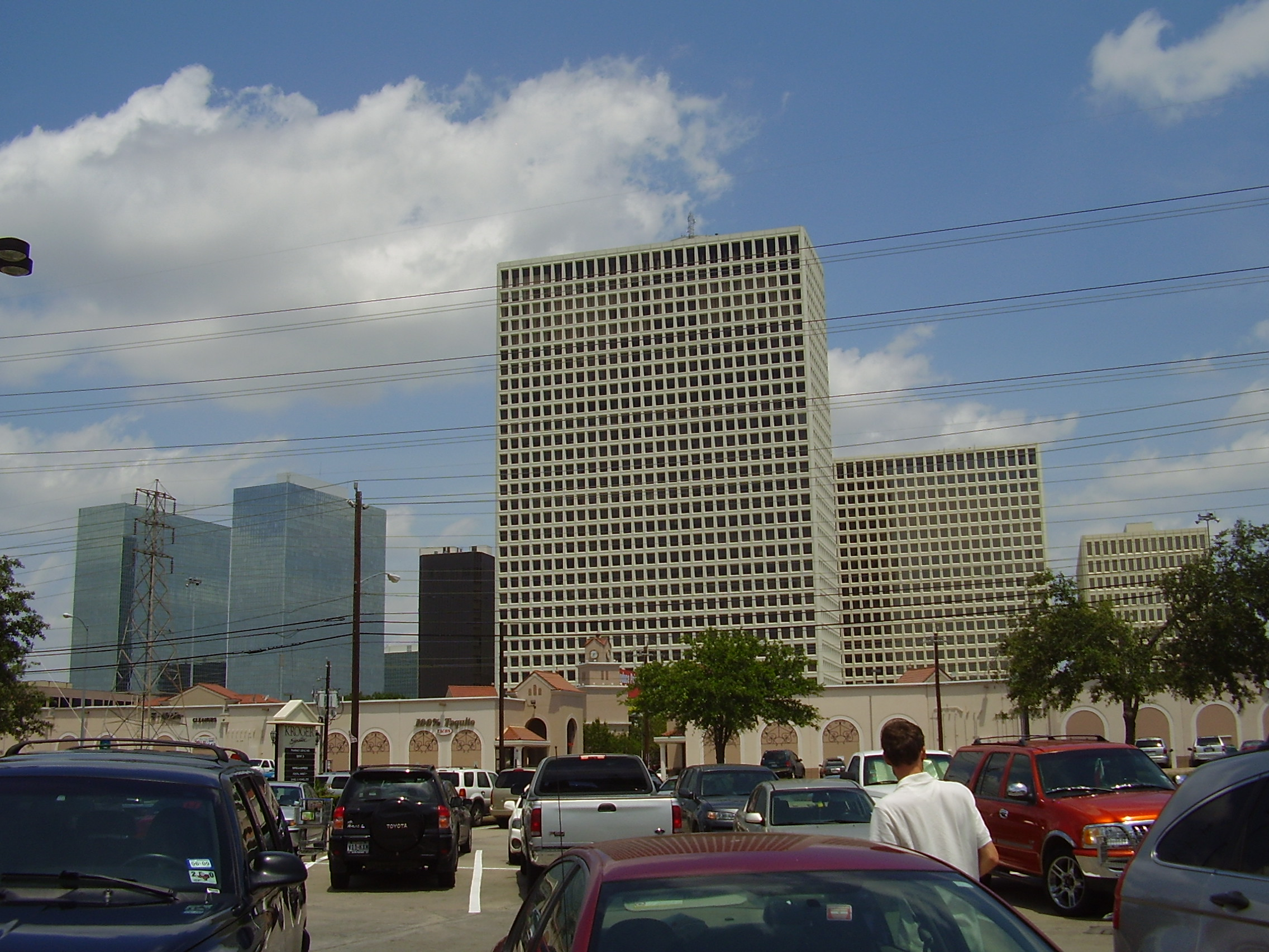 Greenway Plaza Skyline